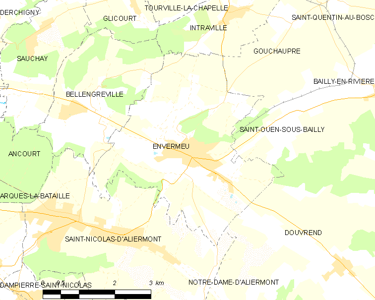 Map of French municipality Envermeu